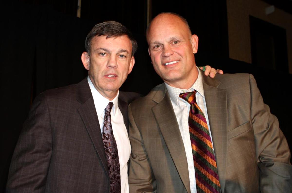 A boxing trainer Teddy Atlas (on the left) and a hockey player Ken Daneyko, New Jersey Devils, during Theodore Atlas Foundation's 15th Annual Teddy Dinner at the Hilton Garden Inn in Staten Island, New York City.